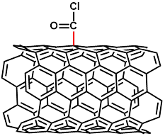 Example of covalent modification on a carbon nanotube.